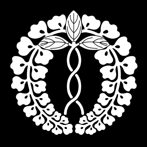 Nijō Fuji, the emblem of the Nijō clan. Based on File:Kujokamon.svg.